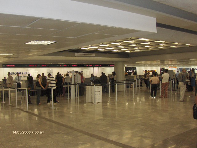 CULIACAN AIRPORT